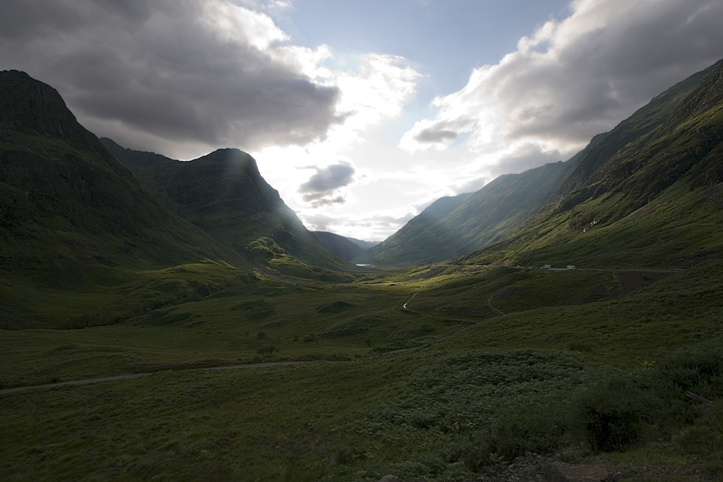 Glen Coe, Scotland